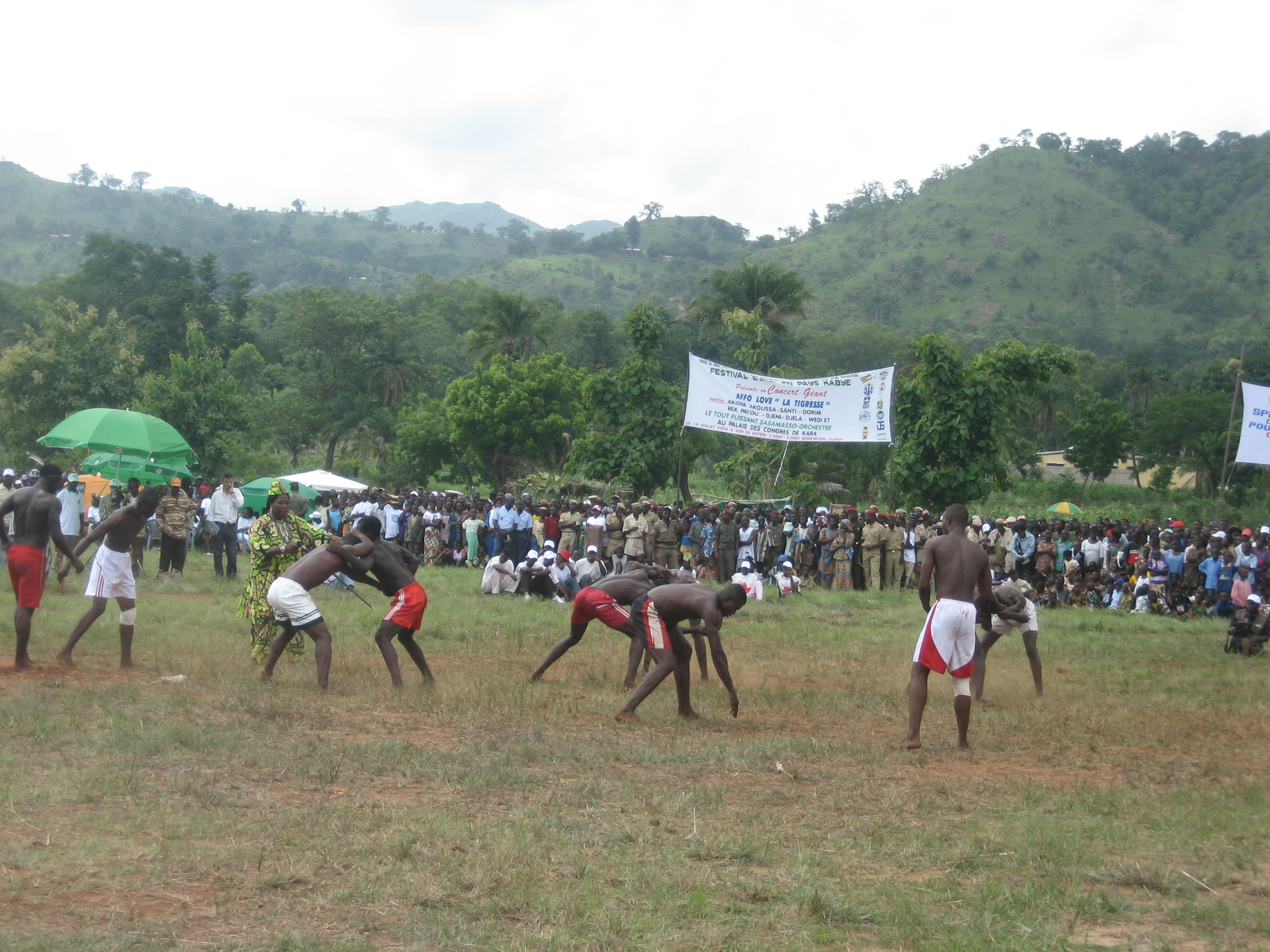 Festival of Evala, a famous wrestling sport in Togo